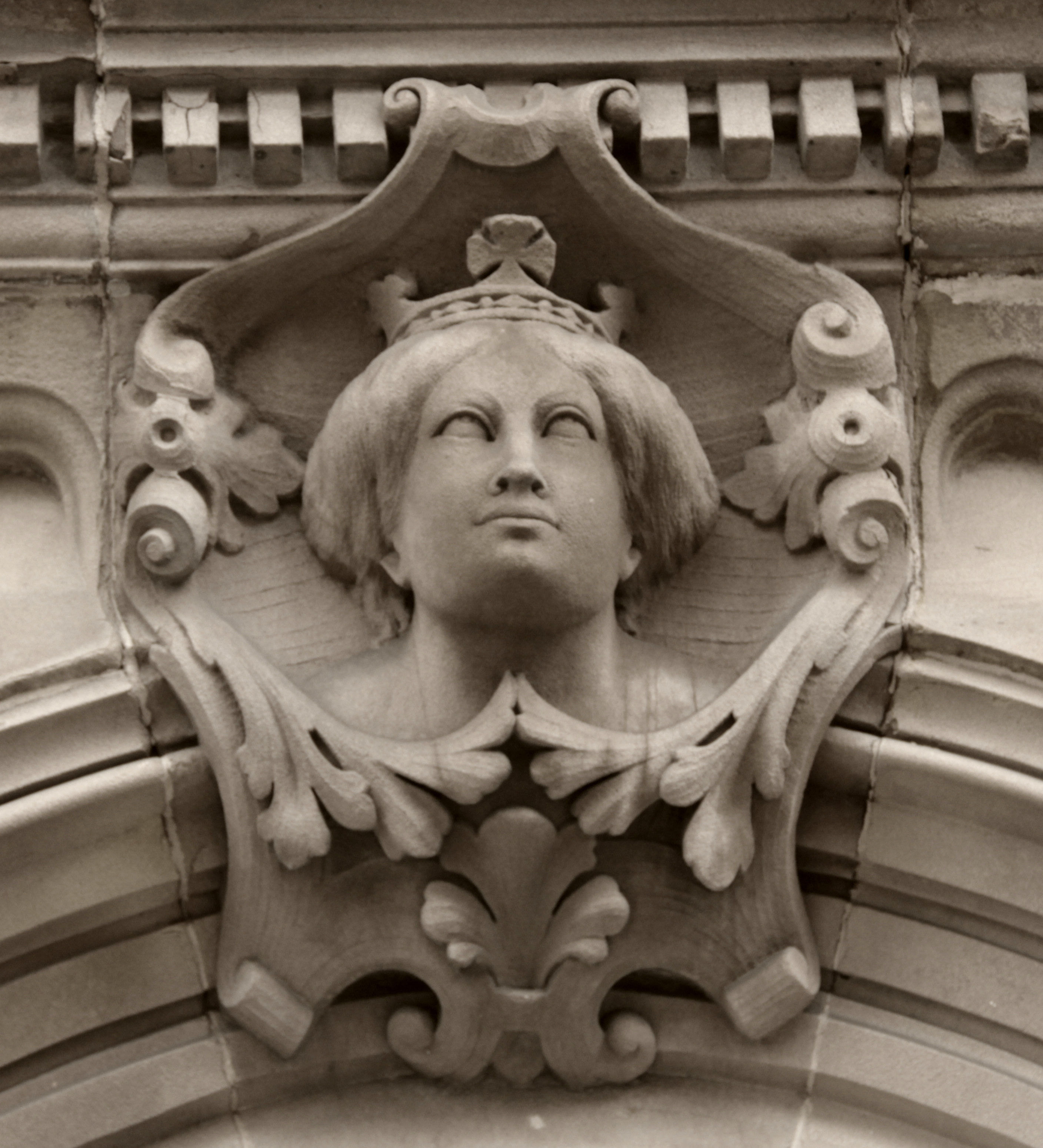 Sculpture on former Queen's Hotel, Barnsley, West Yorkshire, England. It is a Grade II listed building, designed by Wade & Turner, and completed in 1874. The stone carving was executed by Benjamin Payler. As of 2017 the building had been converted to offices. Showing keystone head of Queen Victoria over main door.